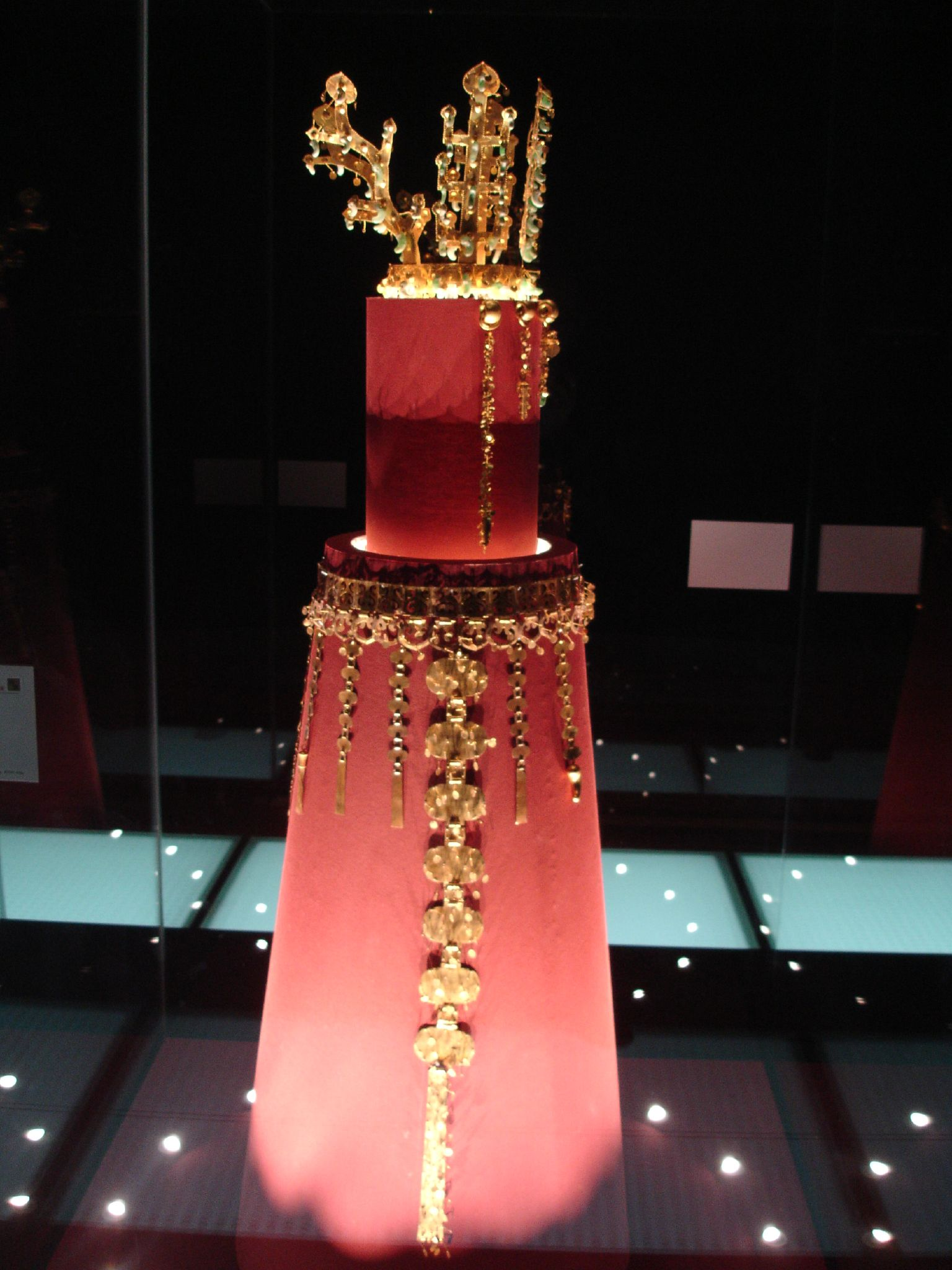 Silla gold crown and royal girdle held at the National Museum of Korea.